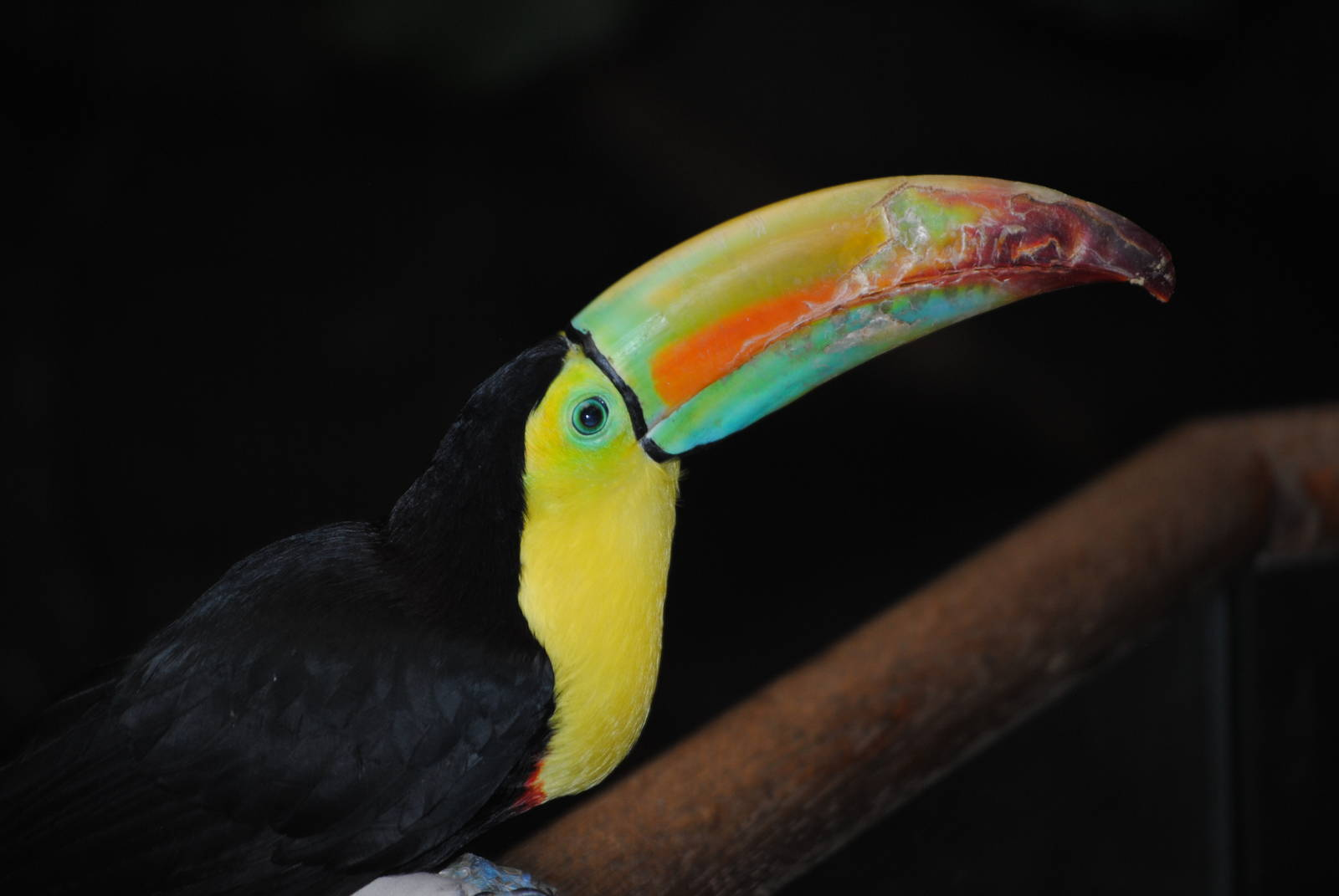 Keel-Billed Toucan at Beardsley Zoo.